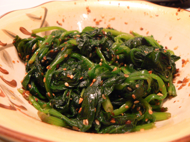 Photo of Goma-ae, attributed by the author/license holder to .